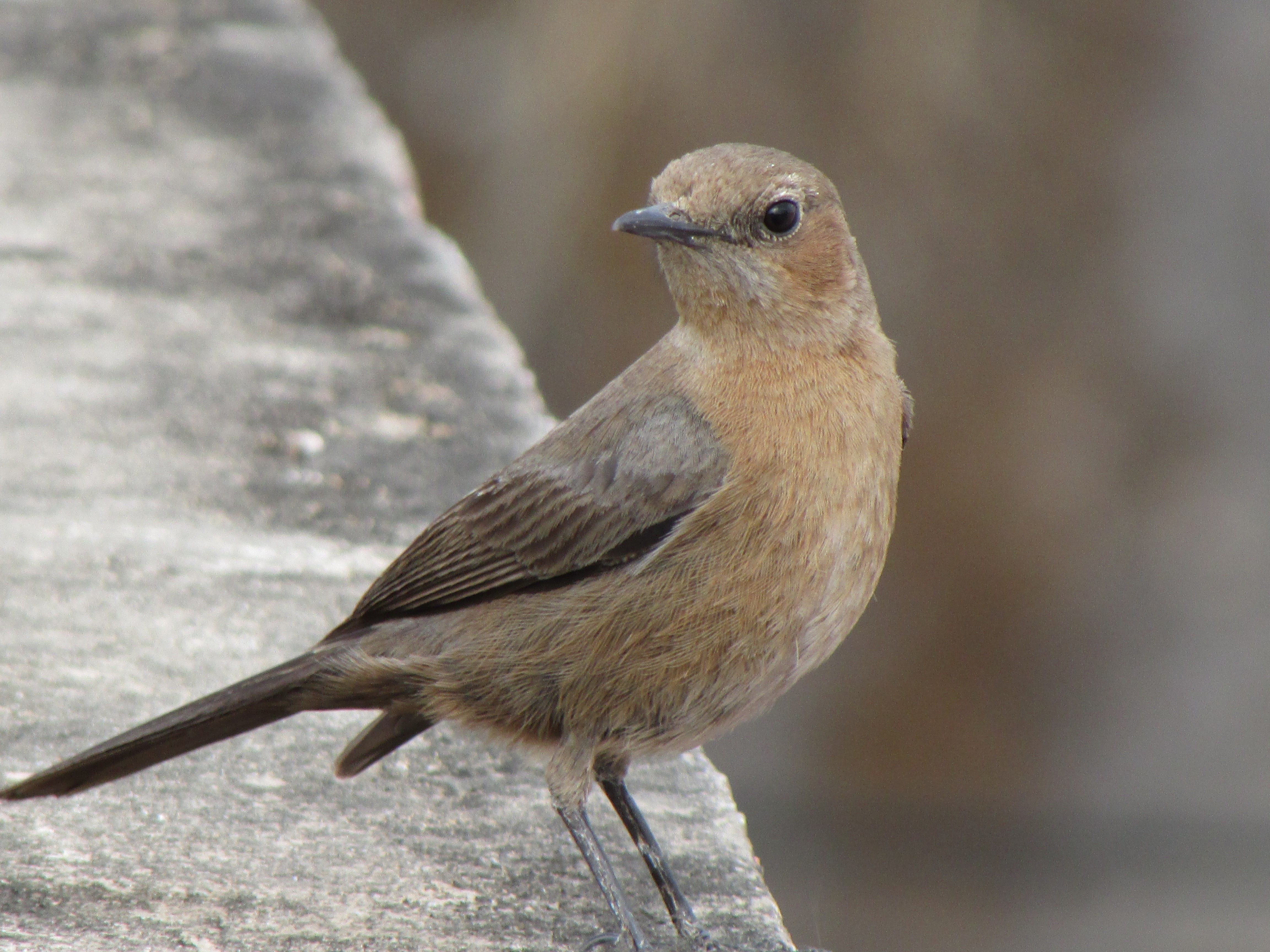 beautiful wild Indian flora and fauna